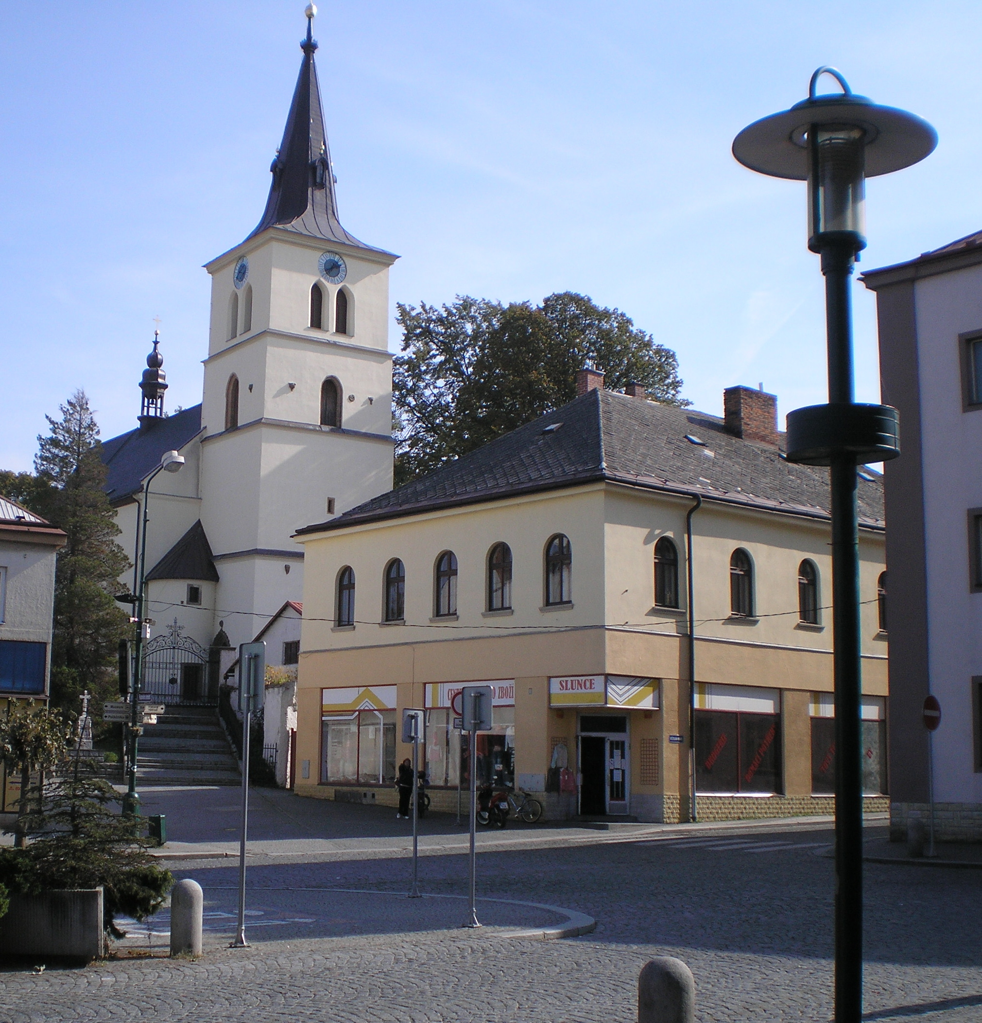 Virgin Mary Assumptiion church in Skuteč